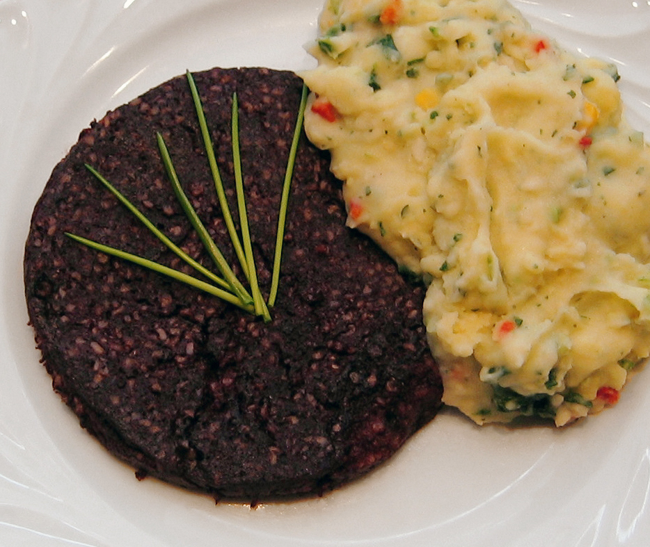 A fried slice of Westphalian Panhas (produced in Dortmund) served together with mashed potatoes (including vegetables).